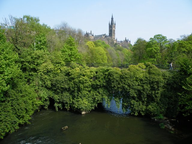 River Kelvin and Glasgow University A green scene, viewed from Partick Bridge.